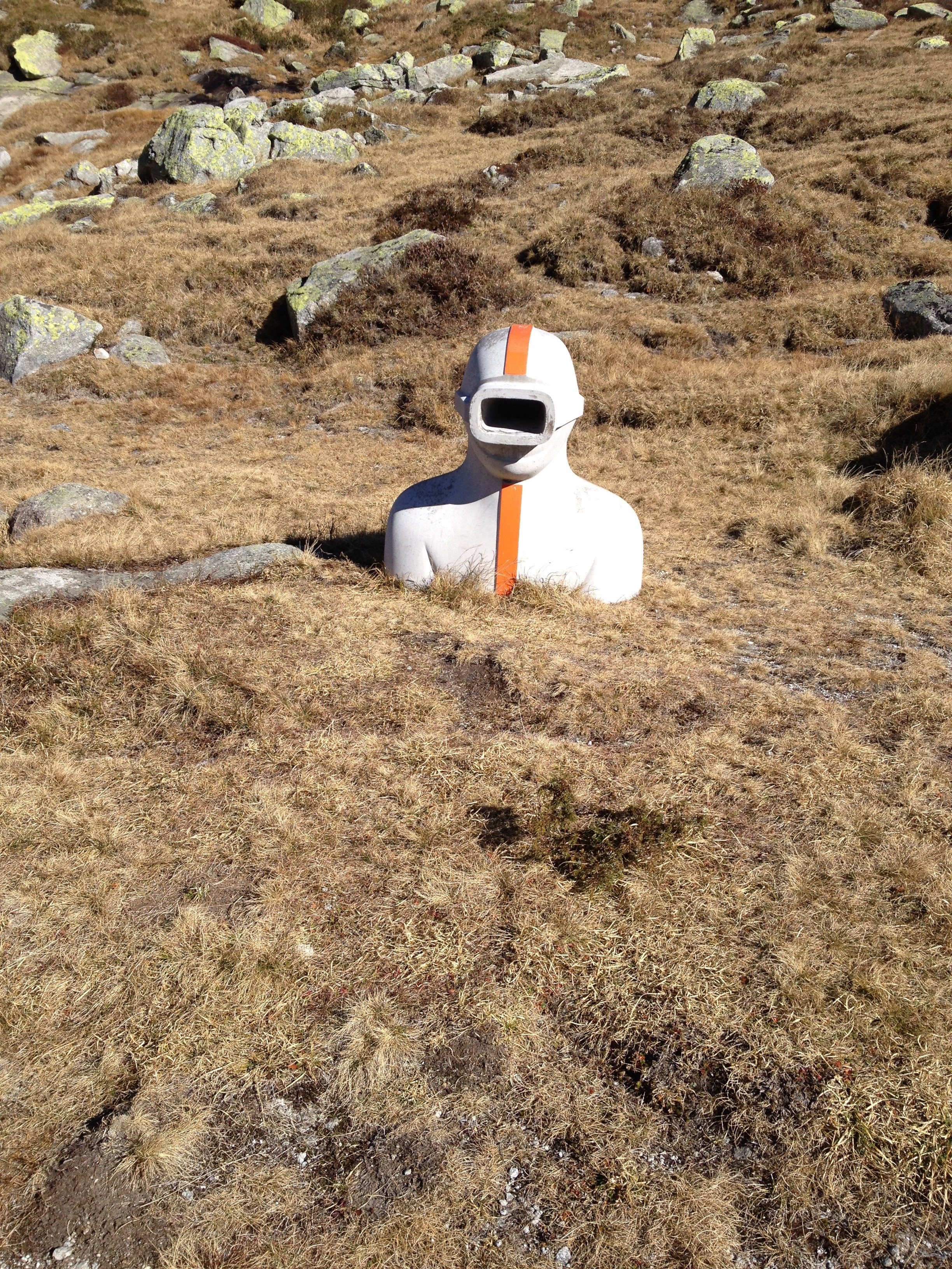 sculpture on the Gotthard pass